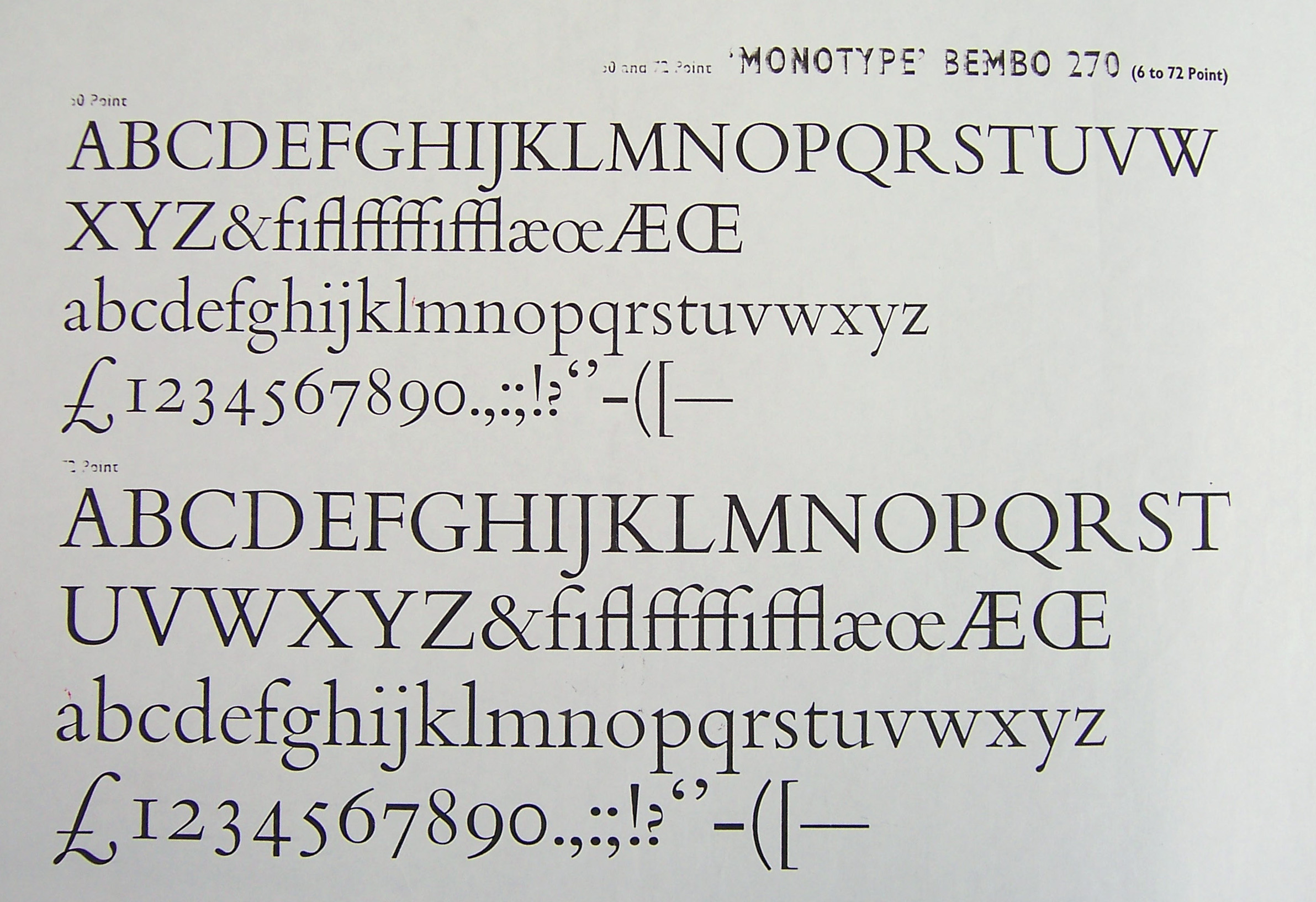 A delicate larger size of Bembo. This picture is an excellent illustration of the construction of ascenders of lower-case letters: in serif fonts such as Bembo, they often stand noticeably higher than the capitals.